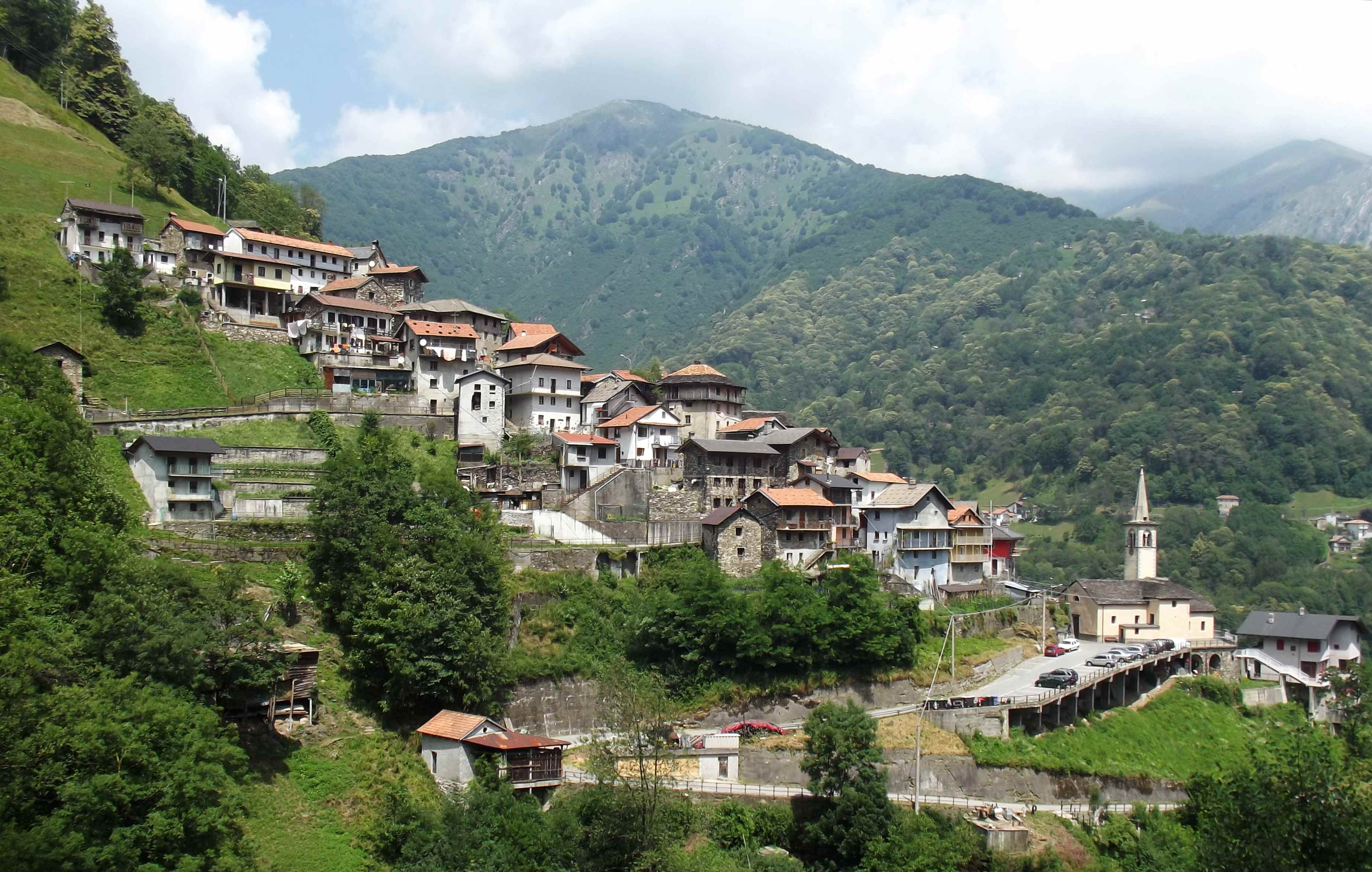 Sambughetto (Valstrona, VB, Italy): panorama